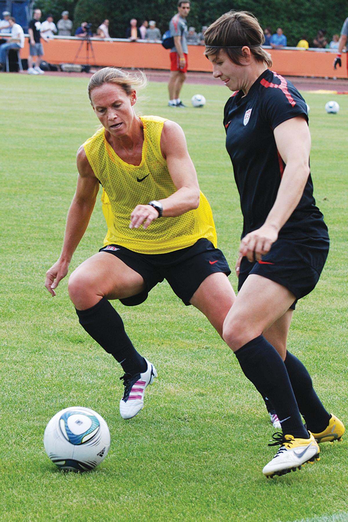 U.S. Women's National Team Captain Christie Rampone (in yellow) vies for the ball with teammate Amy LePeilbet during practice June 30, 2011, in Heidelberg, Germany.